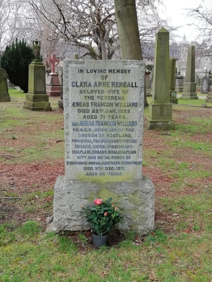 Clara Anne Rendall was awarded the Kaisar-i-Hind Medal for Public Service in India in 1946. She was married to missionary, Chaplin, poet and writer Aeneas Francon Williams - Clara and her husband Aeneas' grave at Dean Cemetery, Edinburgh